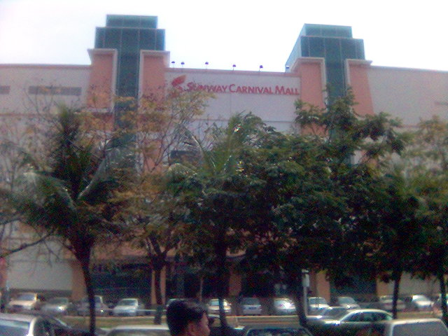 Sunway Carnival mall